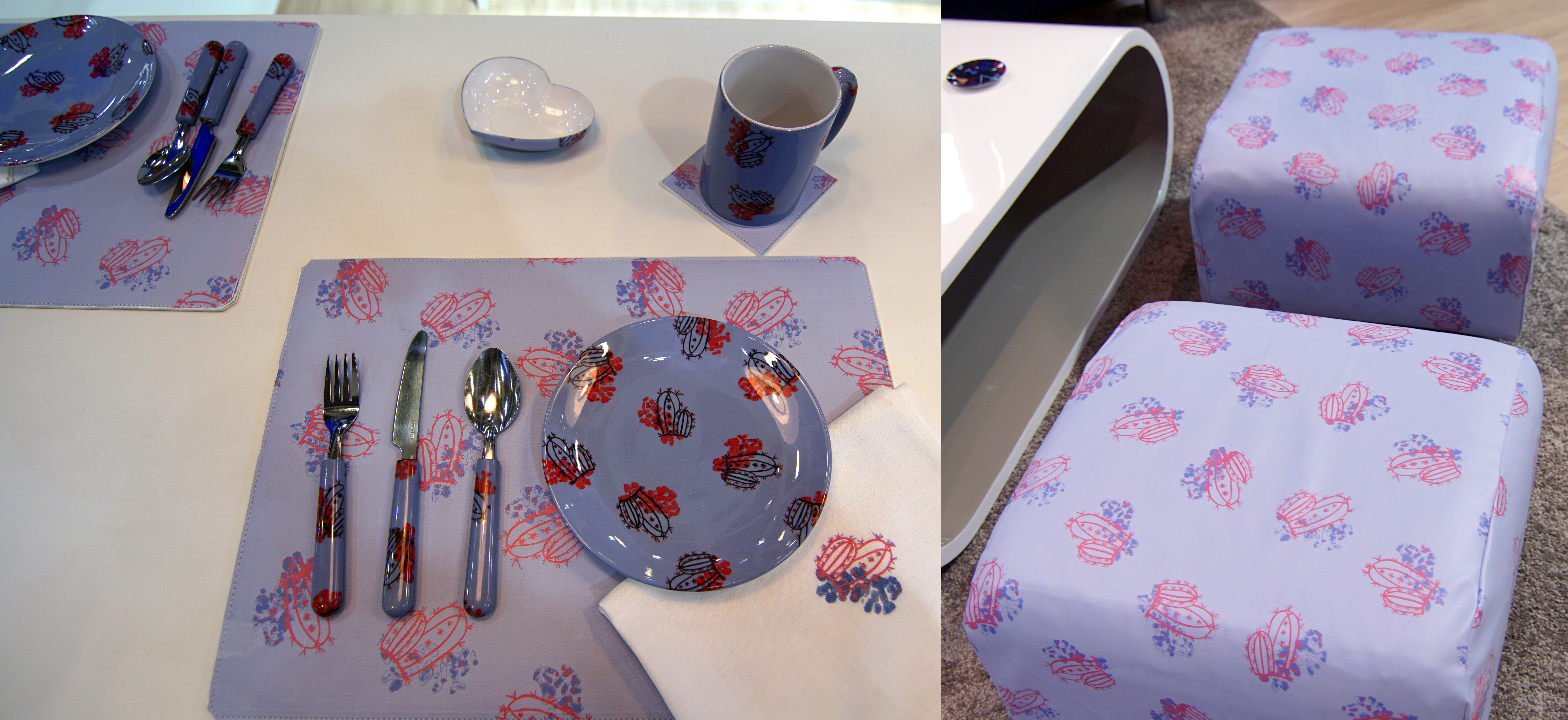 Objects and garments decorated by inkjet and sublimation printers